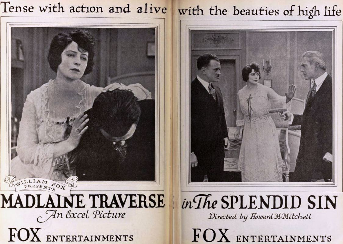 Advertisement for the American drama film The Splendid Sin (1919) with Madlaine Traverse, Charles Clary, and Wheeler Oakman, on pages 8 and 9 of the September 13, 1919 Exhibitors Herald.